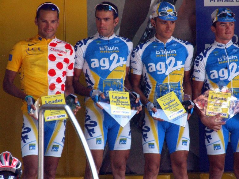 Ag2r team photo at sign in during stage 11 of the 2006 Tour de France at Tarbes. At far left is Cyril Dessel wearing both the yellow jersey and the polka dot jersey.